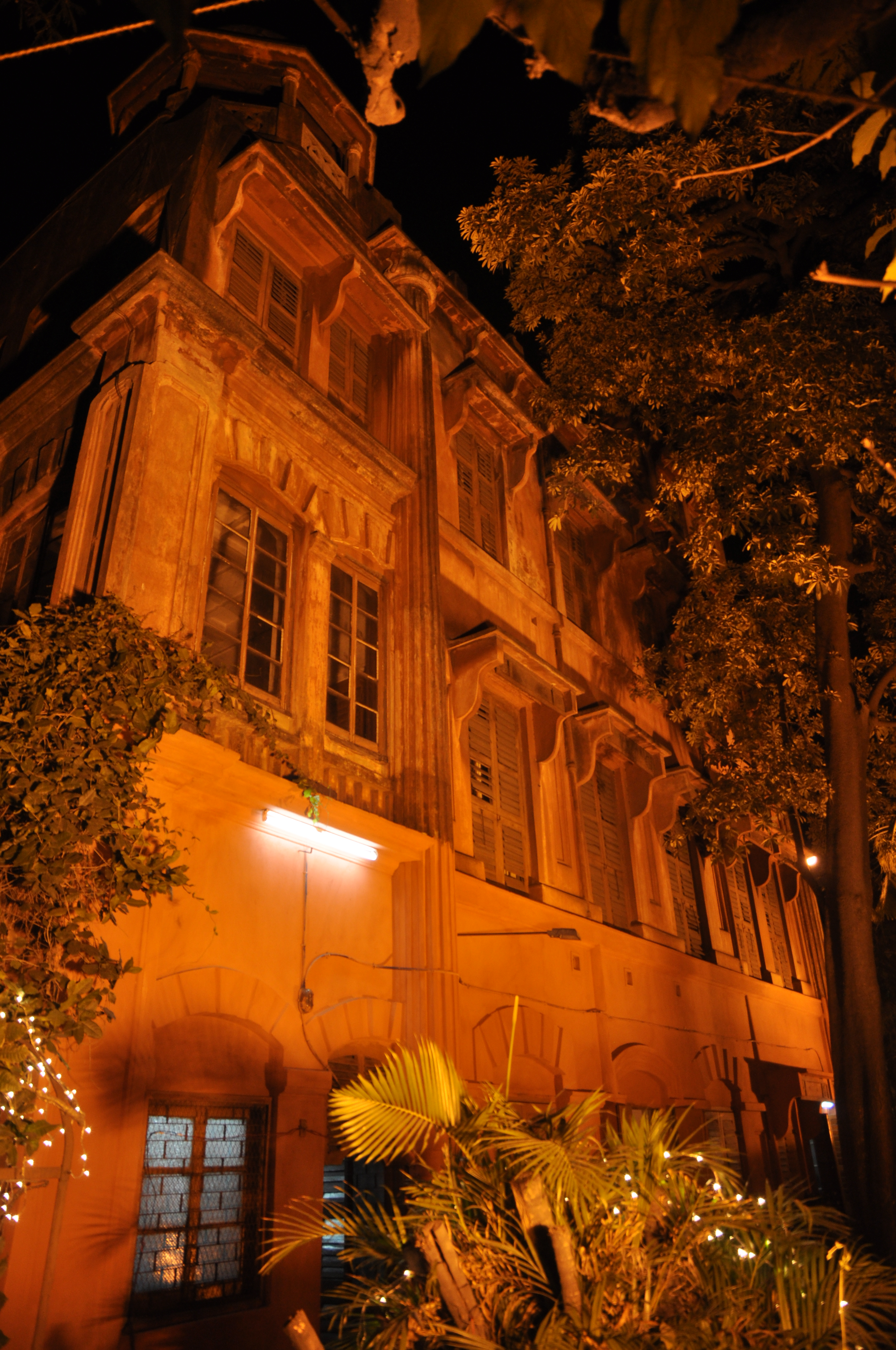 Residential house of Acharya Sir Jagadish Chandra Bose become museum at A P C Roy road, Kolkata at night.